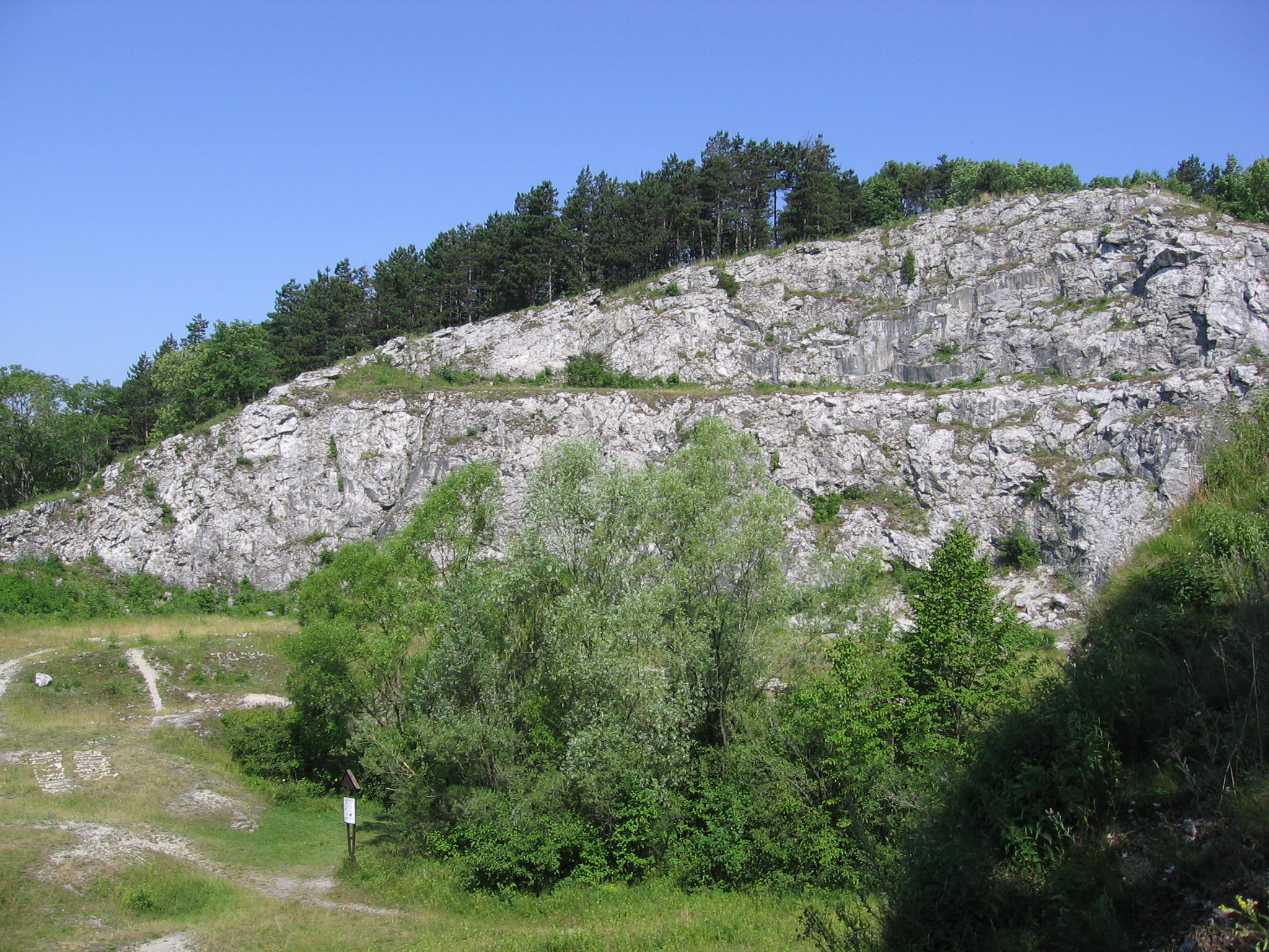 Kamenárka (Natural monument), Štramberk, Czech Republic